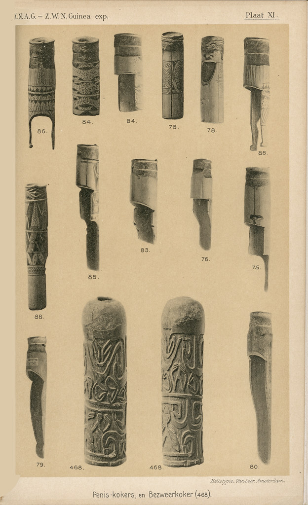 Rouffaer, G.P. et al.: De Zuidwest Nieuw-Guinea-Expeditie, 1904-5, Kon. Ned. Aardrijkskundig Genootschap, Leiden E. J. Brill, 1908 - Plate XI Penis gourds and Enchanting tube.